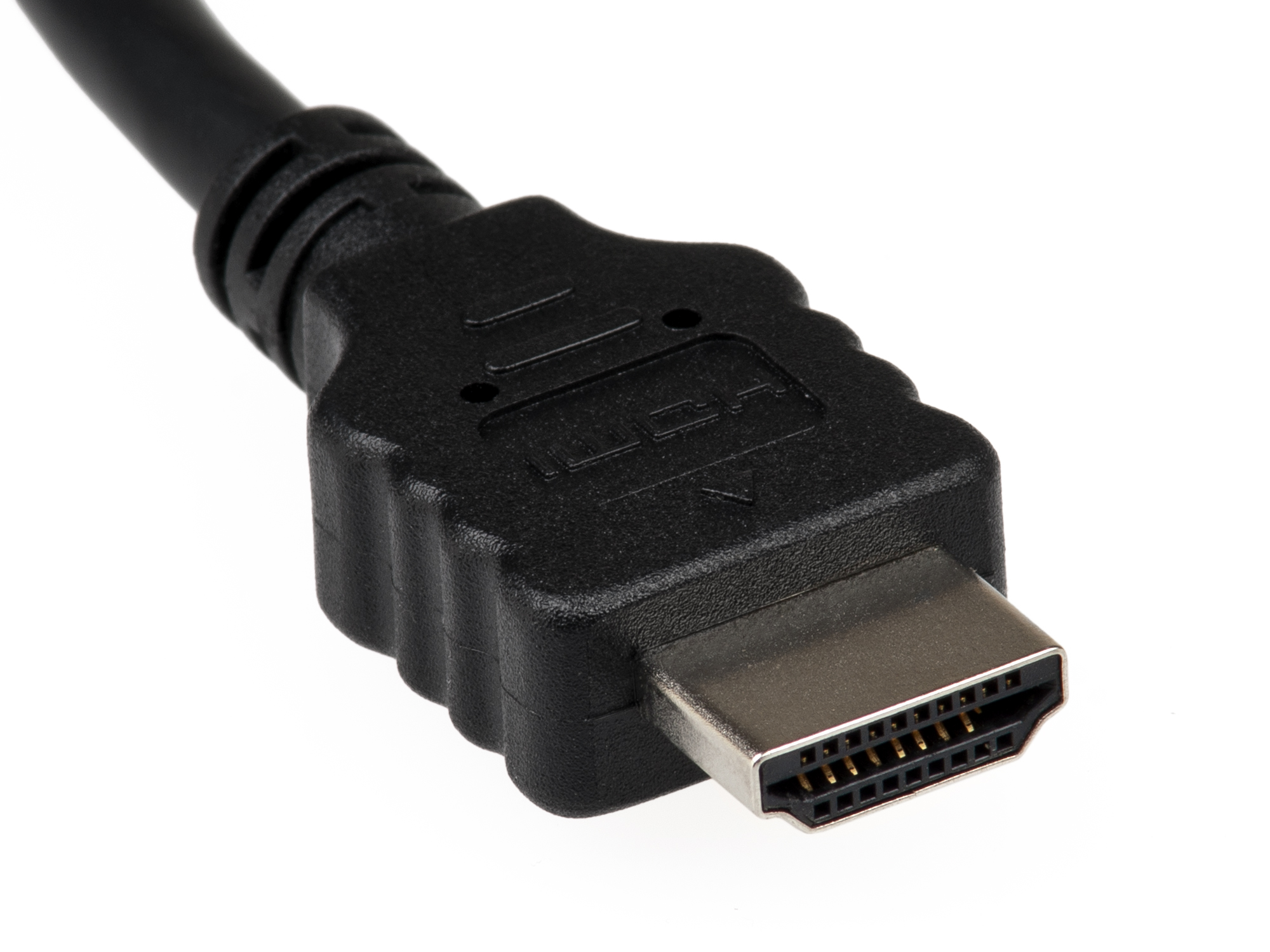 A standard HDMI connector for hooking up audio/visual equipment.